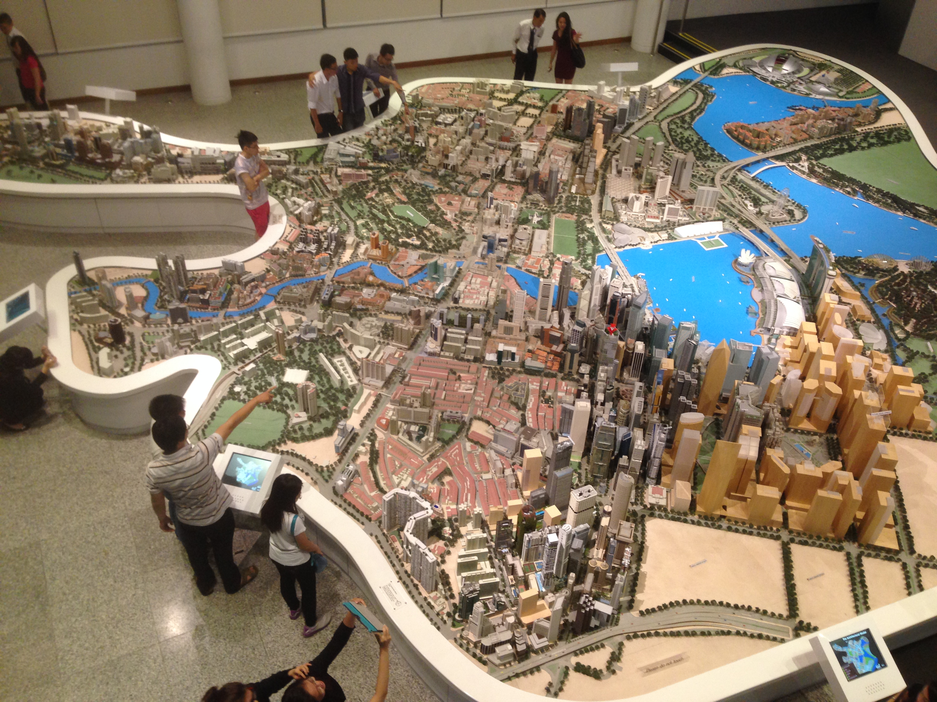 Photo of the Singapore City Gallery's Central Area Model, taken from the third floor of the gallery. Almost entire model visible, from Orchard Road in top left to Marina bay in bottom right.